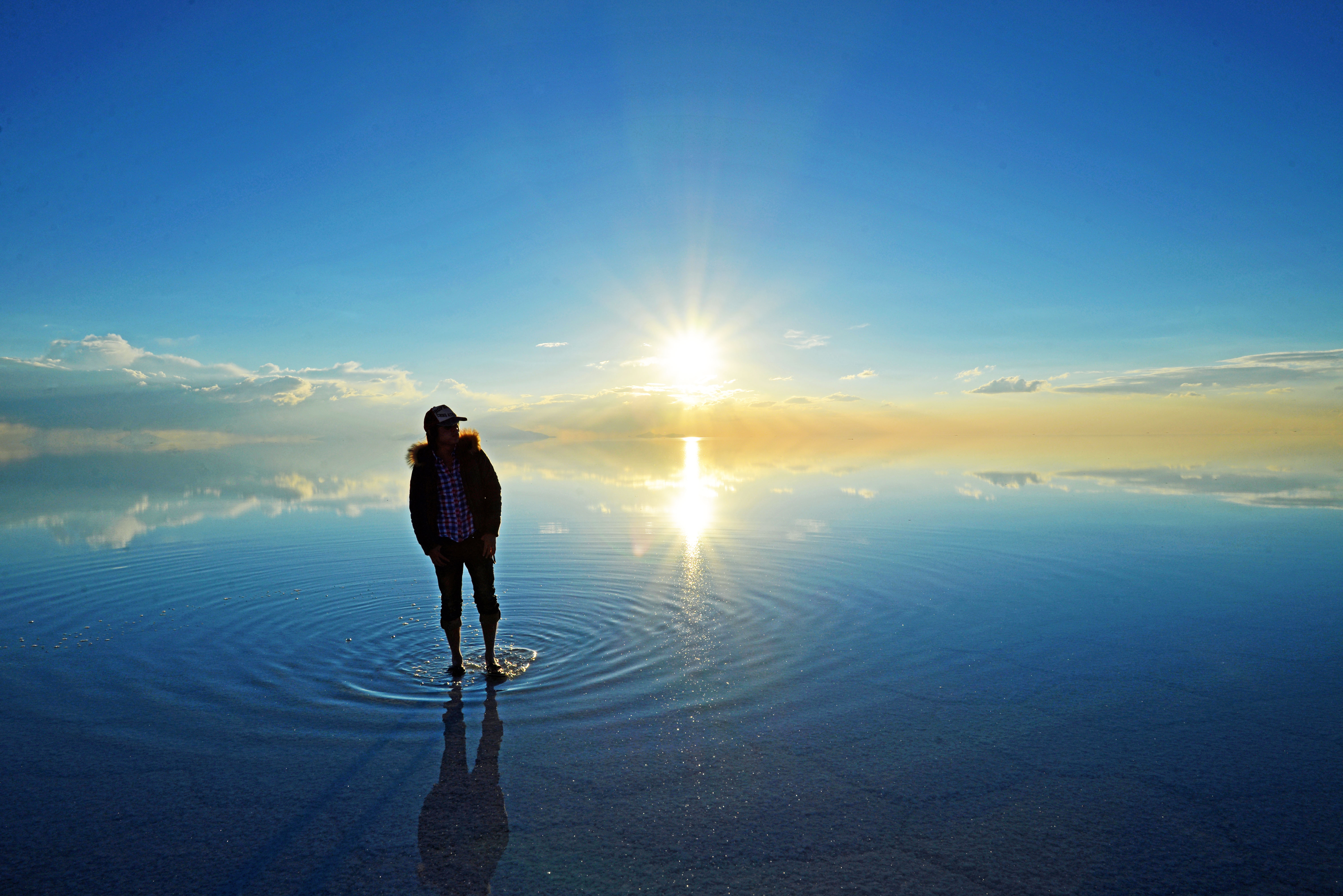 Taking a picture of a person and sunset of Salar de Uyuni in February 2013.